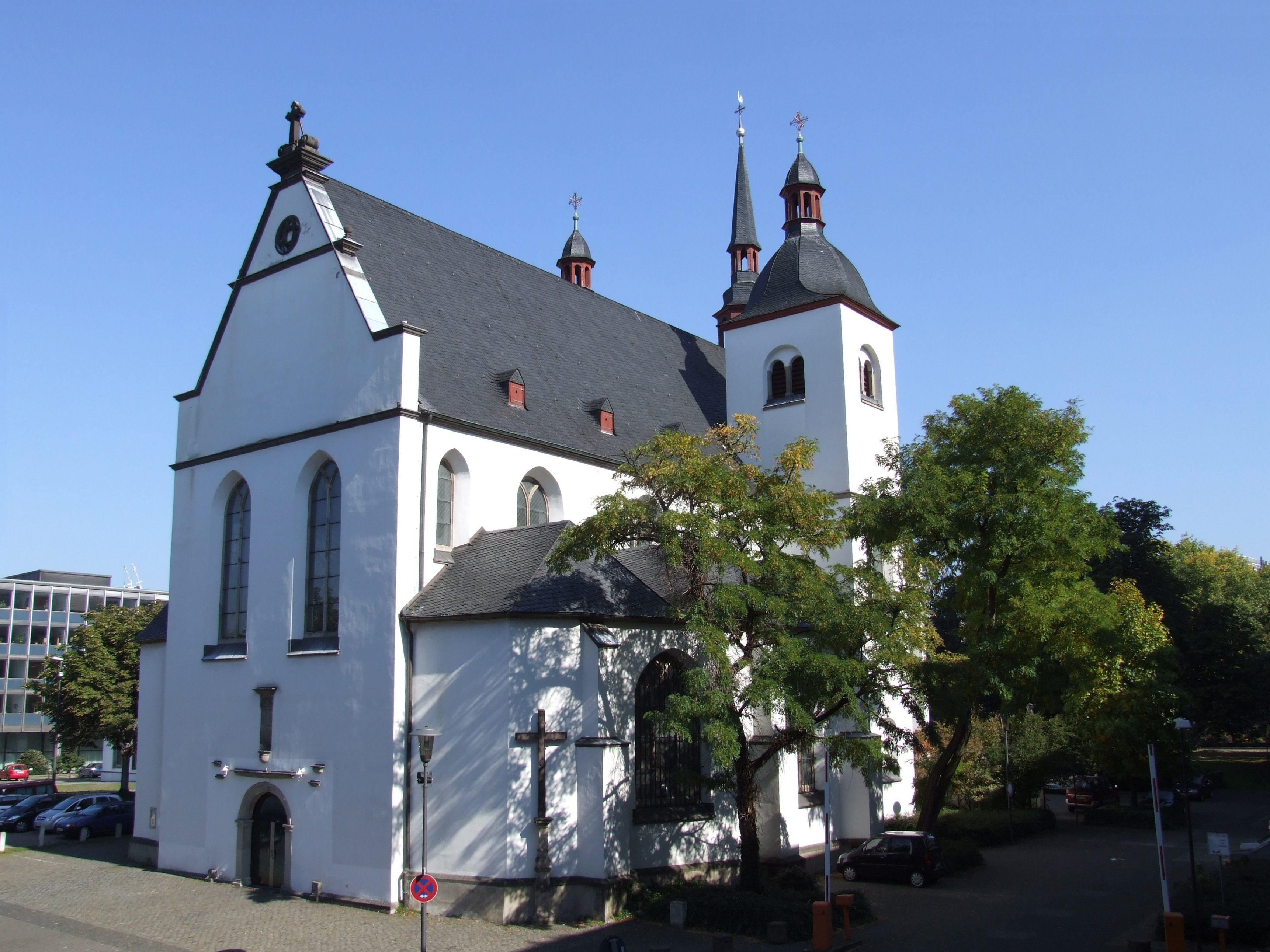 Deutz, St. Alt-Heribert This image shows a heritage building in Germany, located in the North Rhine-Westphalian city Köln (no. 1092).